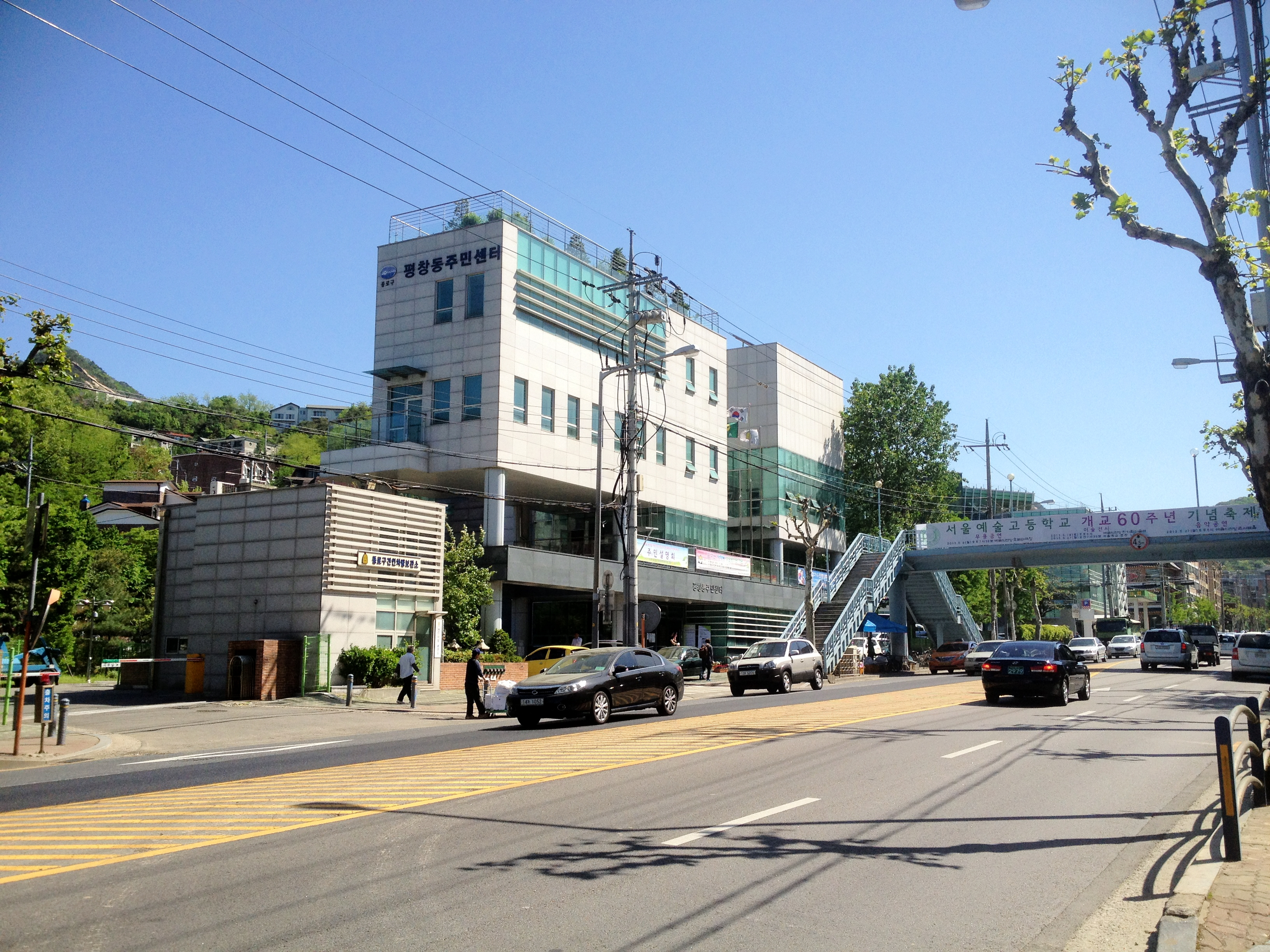 Pyeongchang-dong Comunity Service Center(Jongno-gu)